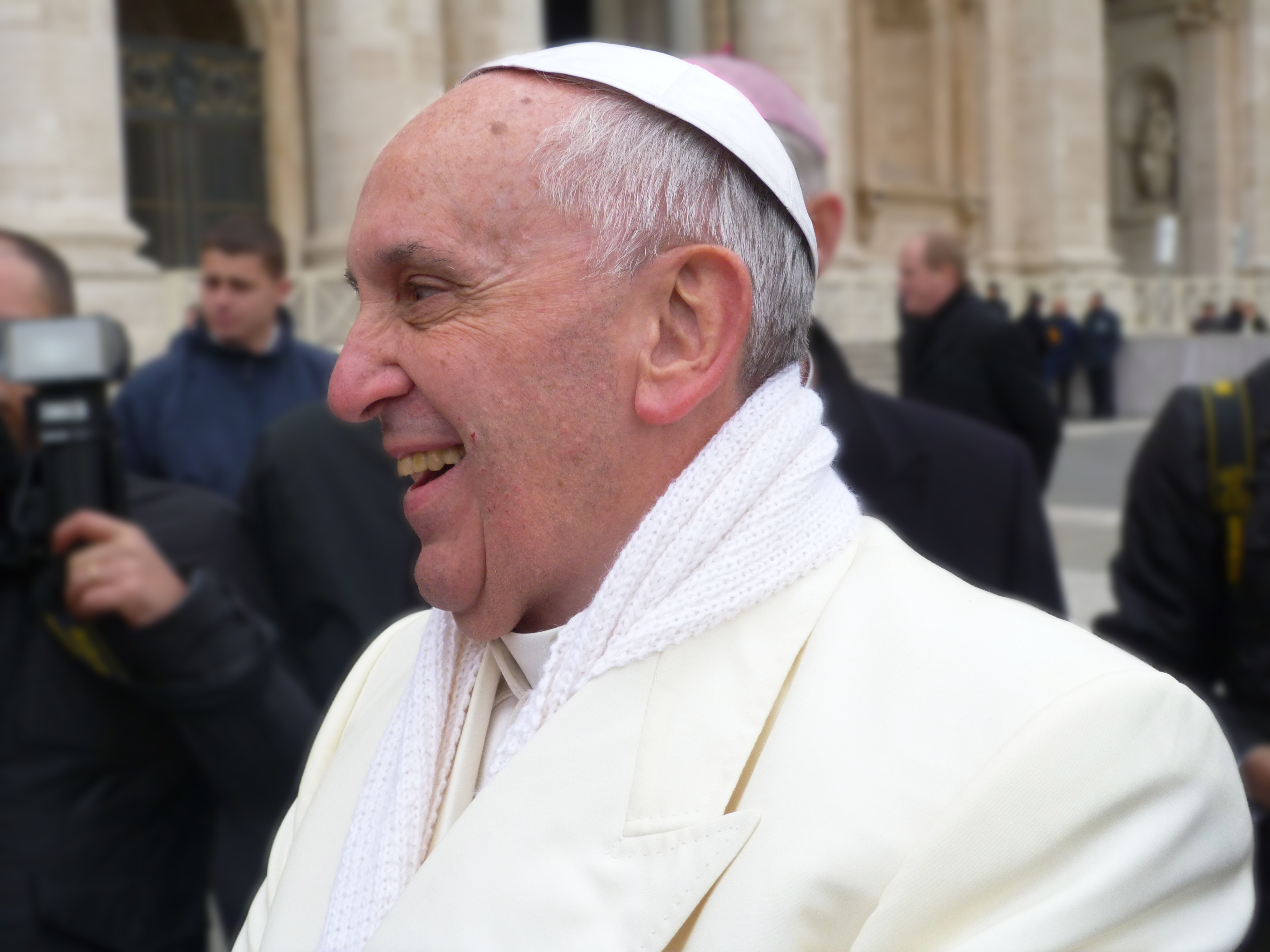 Pope Francis in St. Peter's Square. November 27, 2013.